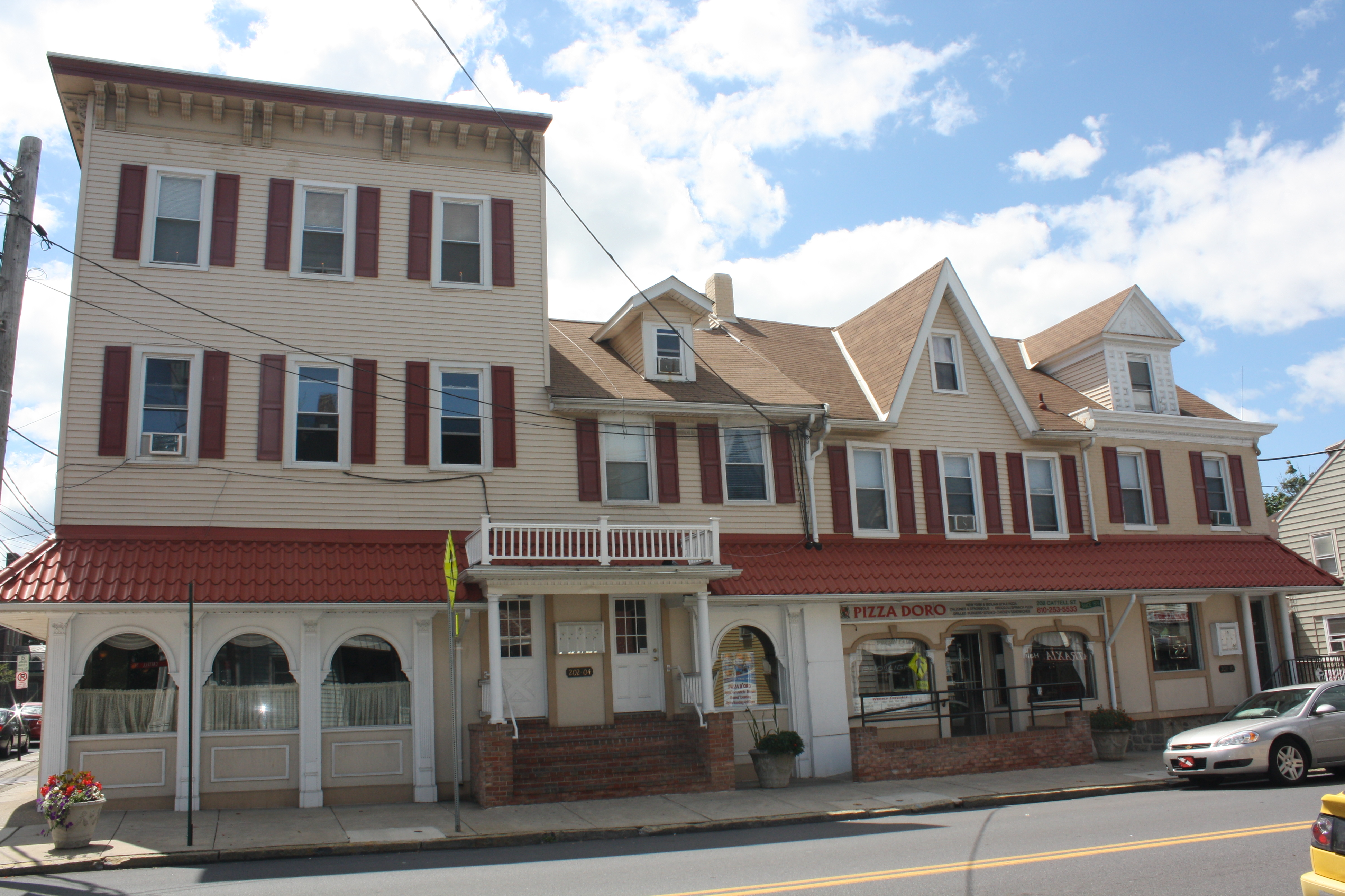 Pizza Doro, 200/202/204/208/210 Cattell St., College Hill Residential Historic District , Easton PA.